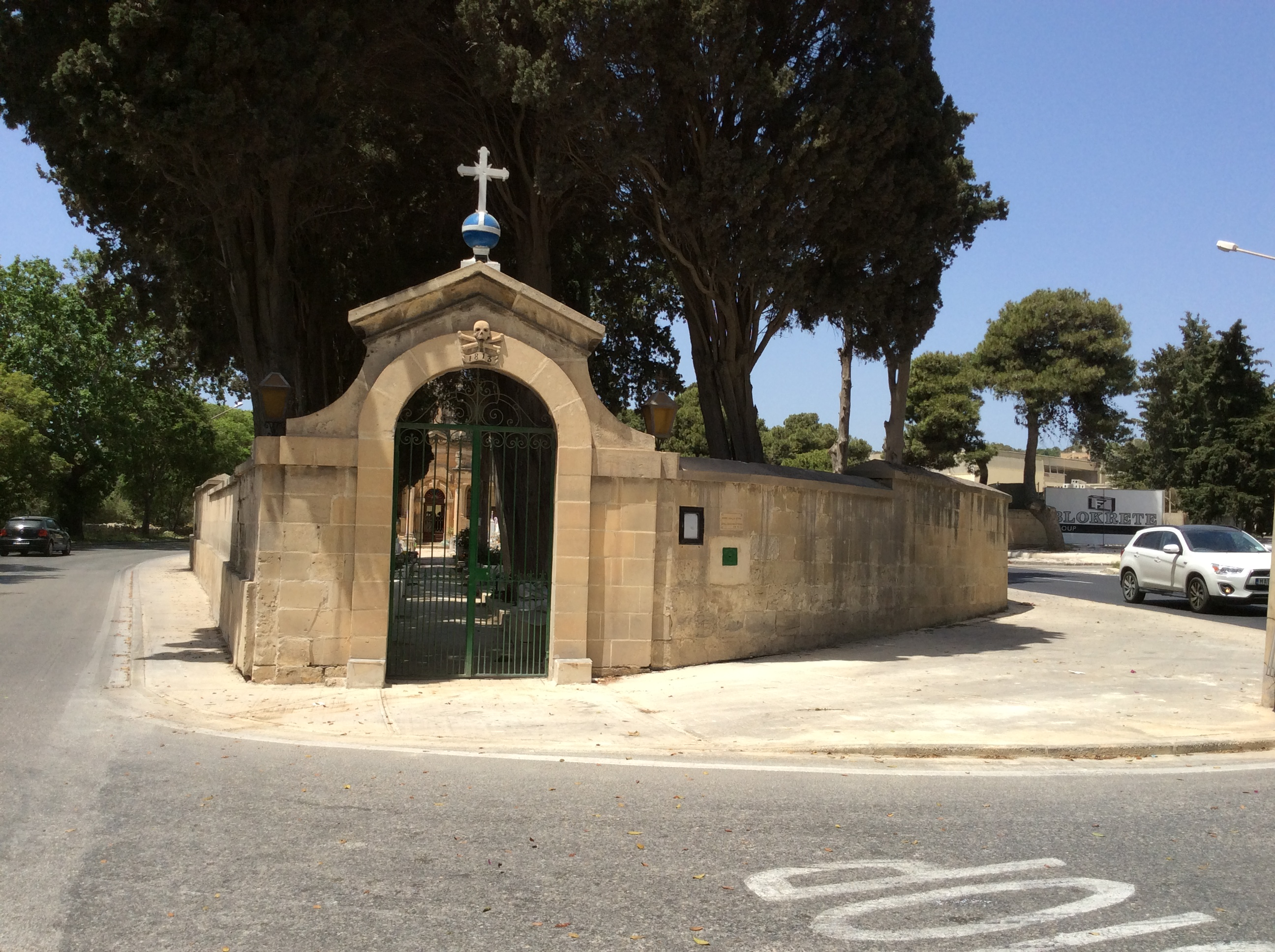 Lija places